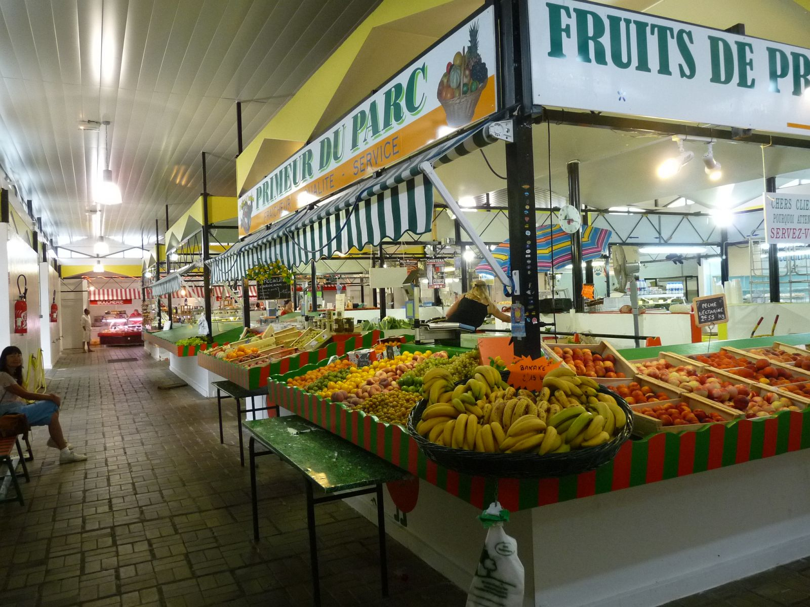 inside of the small indoor market of Le Parc, Royan, SW France